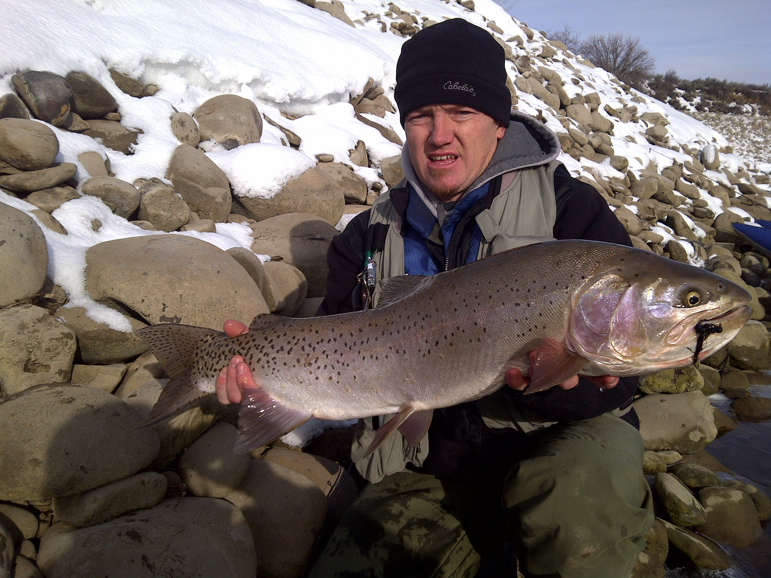 Curtis Robinson shows the huge cutthroat trout he caught and released at East Canyon Reservoir. The 31.5-inch cutthroat set a new Utah state record. As of March 26, 2011, it's the largest cutthroat trout ever caught and released in Utah.